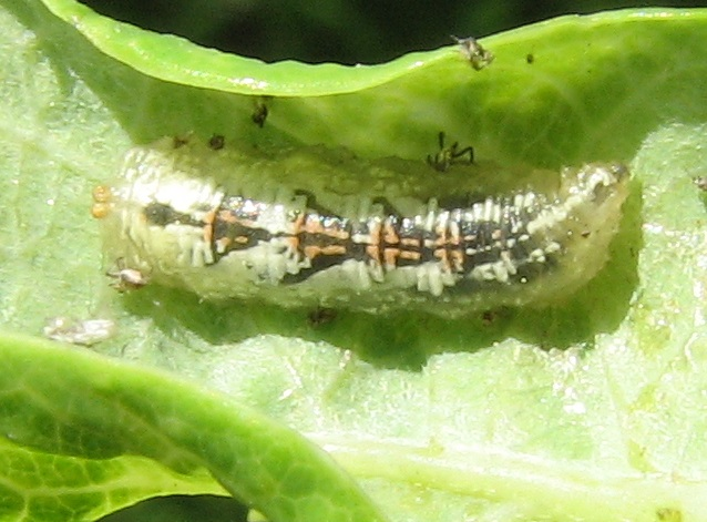 Larva of Syrphus fly feeding on aphids on on trumpet honeysuckle. Schuylkill Nature Center, Philadelphia County, Pennsylvania, USA.